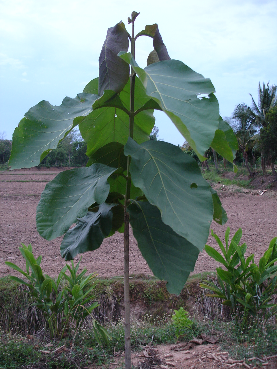 A young teak Tectona grandis with big leaves.